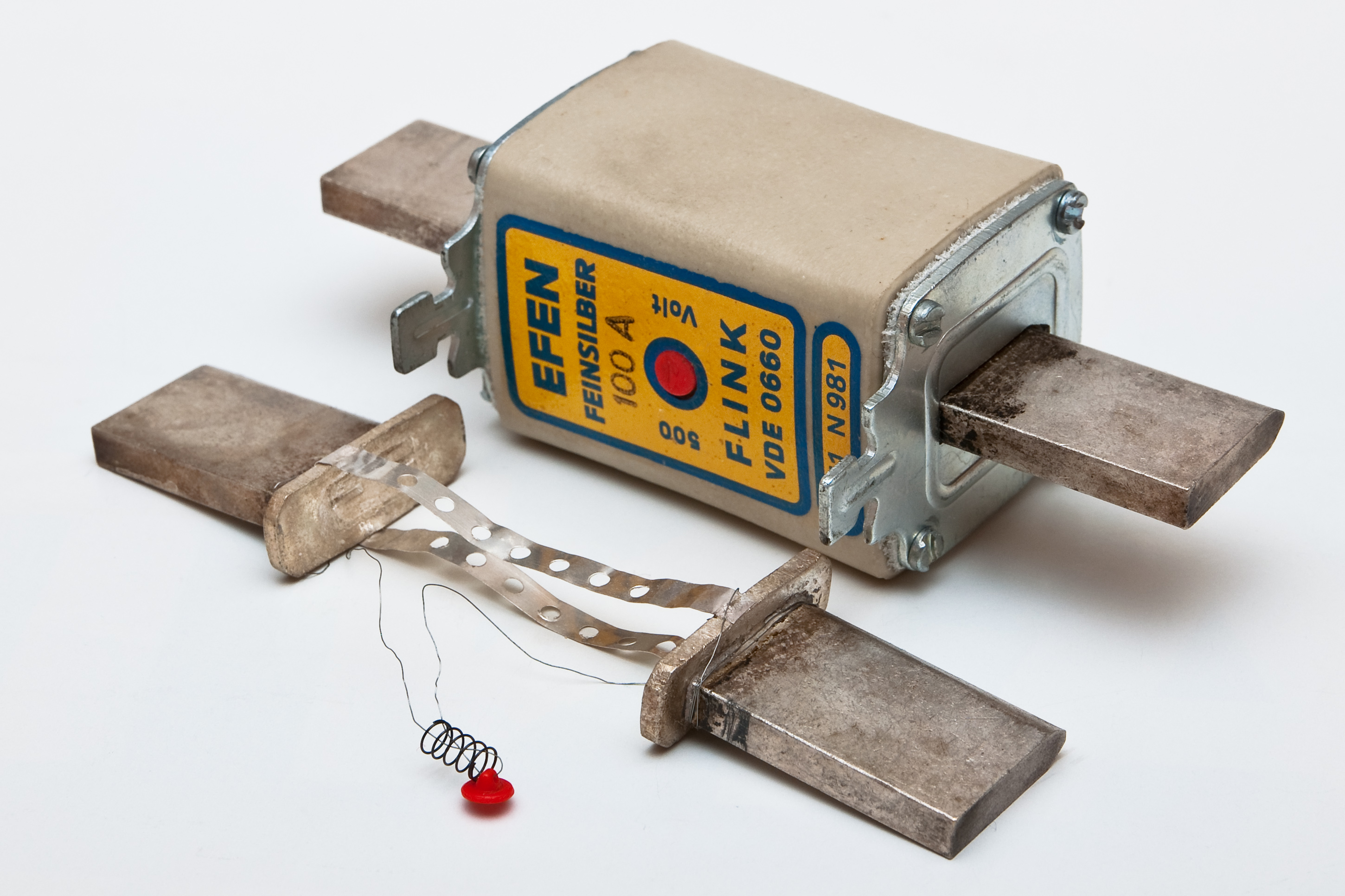 Fast industrial fuse Size: NH1 (N 981) Dimensions: 14cm x 4.4cm Voltage rating: 500V Current rating. 100A